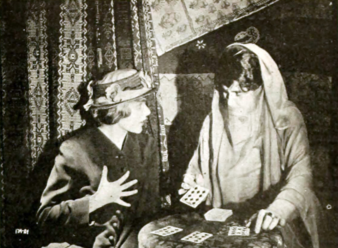 Illustration of a review in The Moving Picture World for the film The Thousand-Dollar Husband (1916).